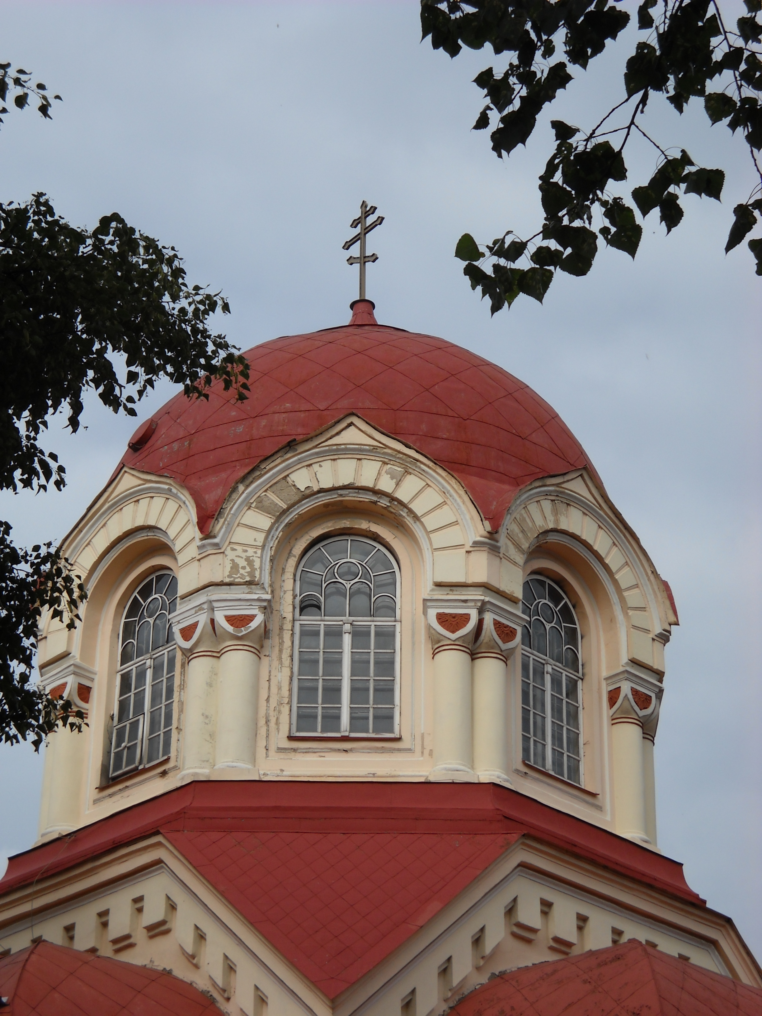 Orthodox Church of St. Michael in Vilnius